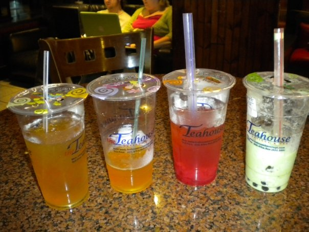 Four Bubble Tea drinks from the Teahouse in Houston, Texas.